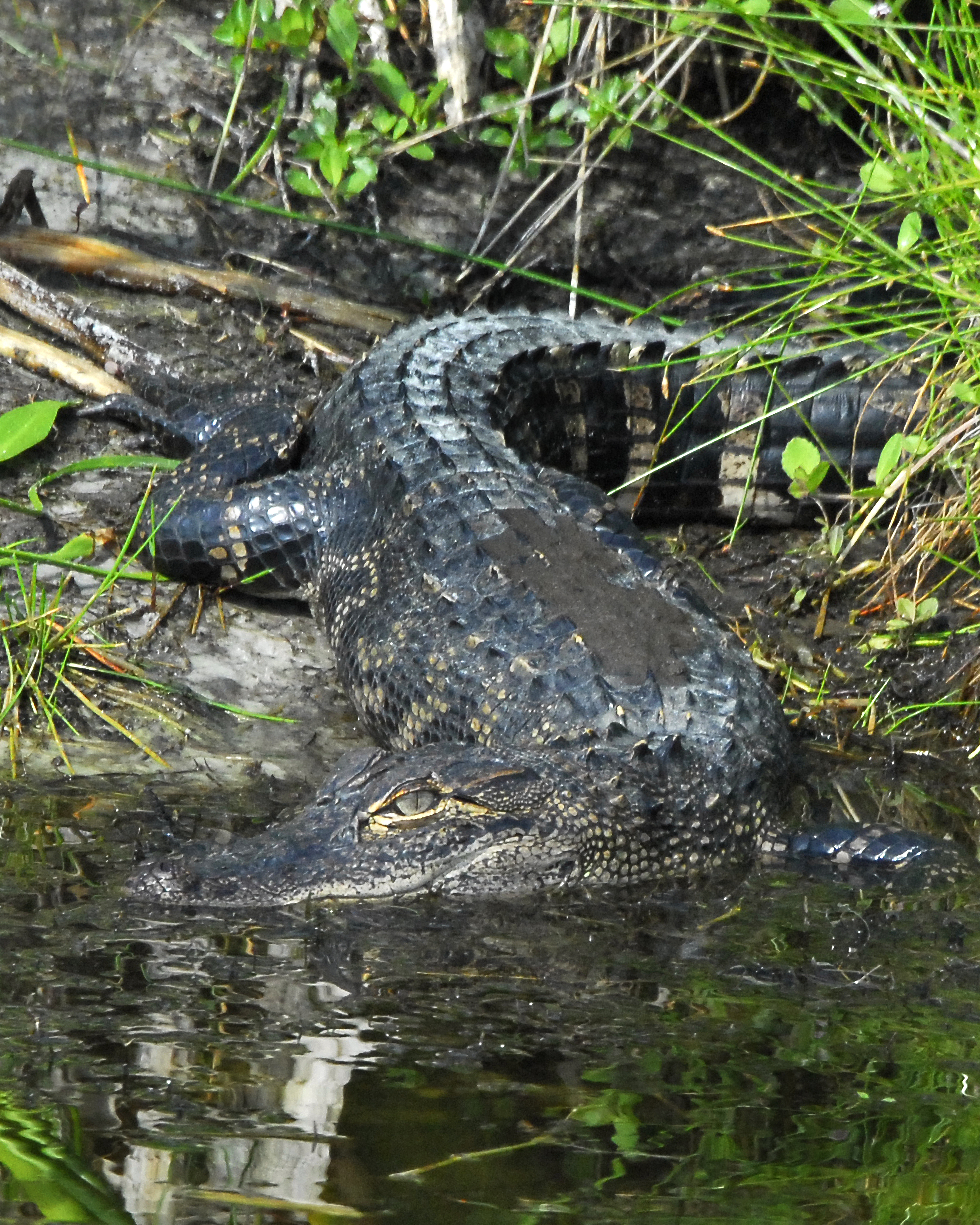 Unidentified alligator.